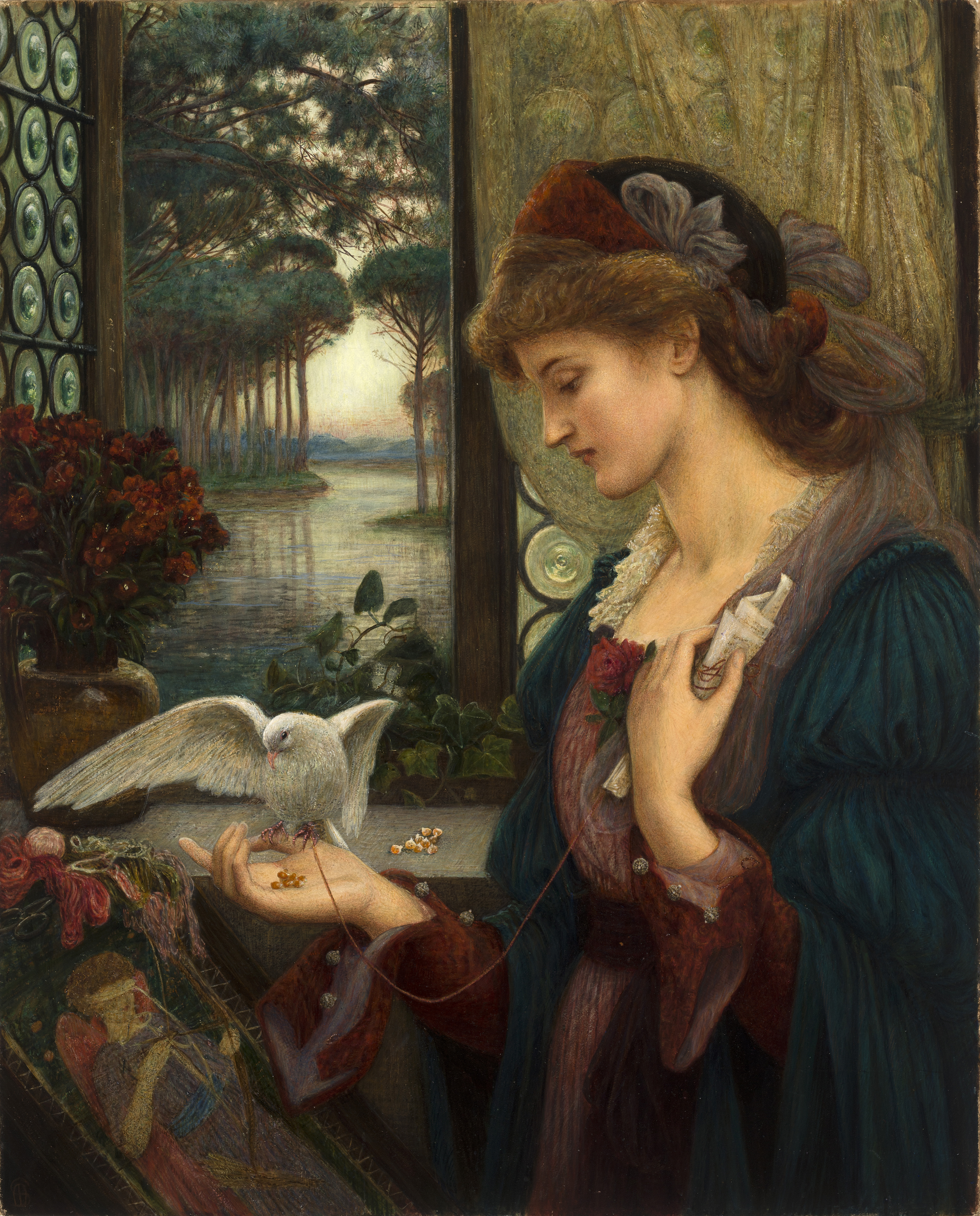 Love's Messenger, c. 1885 Marie Spartali Stillman (1844-1927) Watercolor, tempera, and gold paint on paper mounted on wood 32 x 26 inches Samuel and Mary R. Bancroft Memorial, 1935 DAM 1935-75 At the Delaware Art Museum